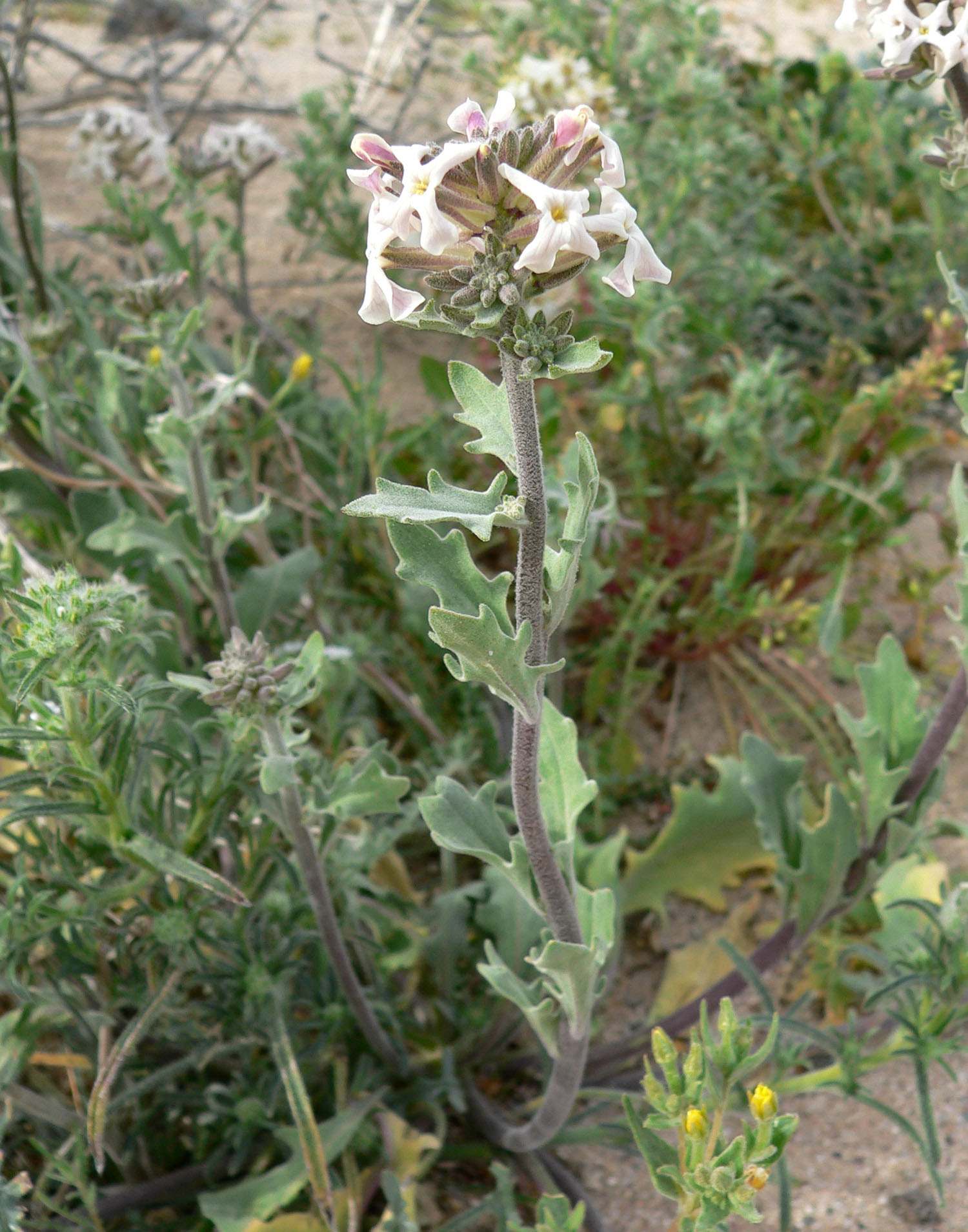 Dithyrea californica in sand below hills by Soda Dry Lake, 3 km south of Baker, California